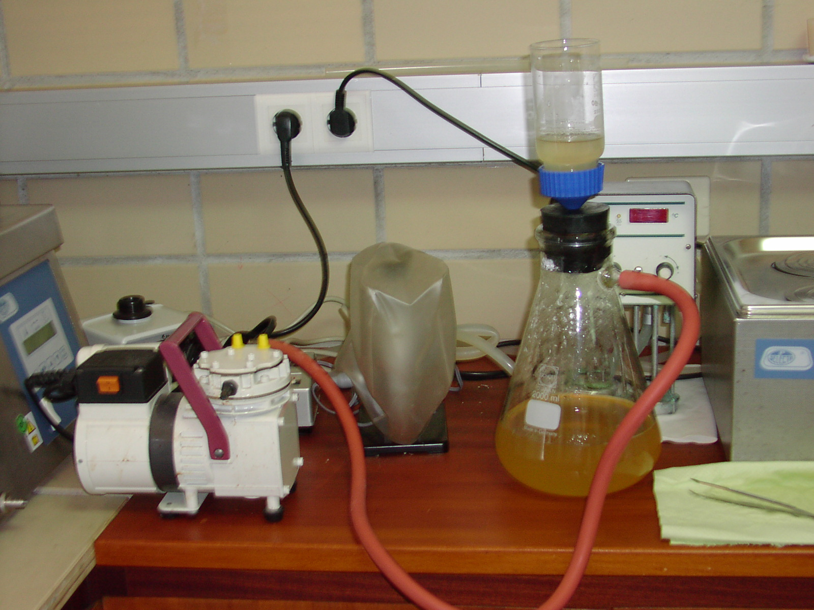 laboratory flasks